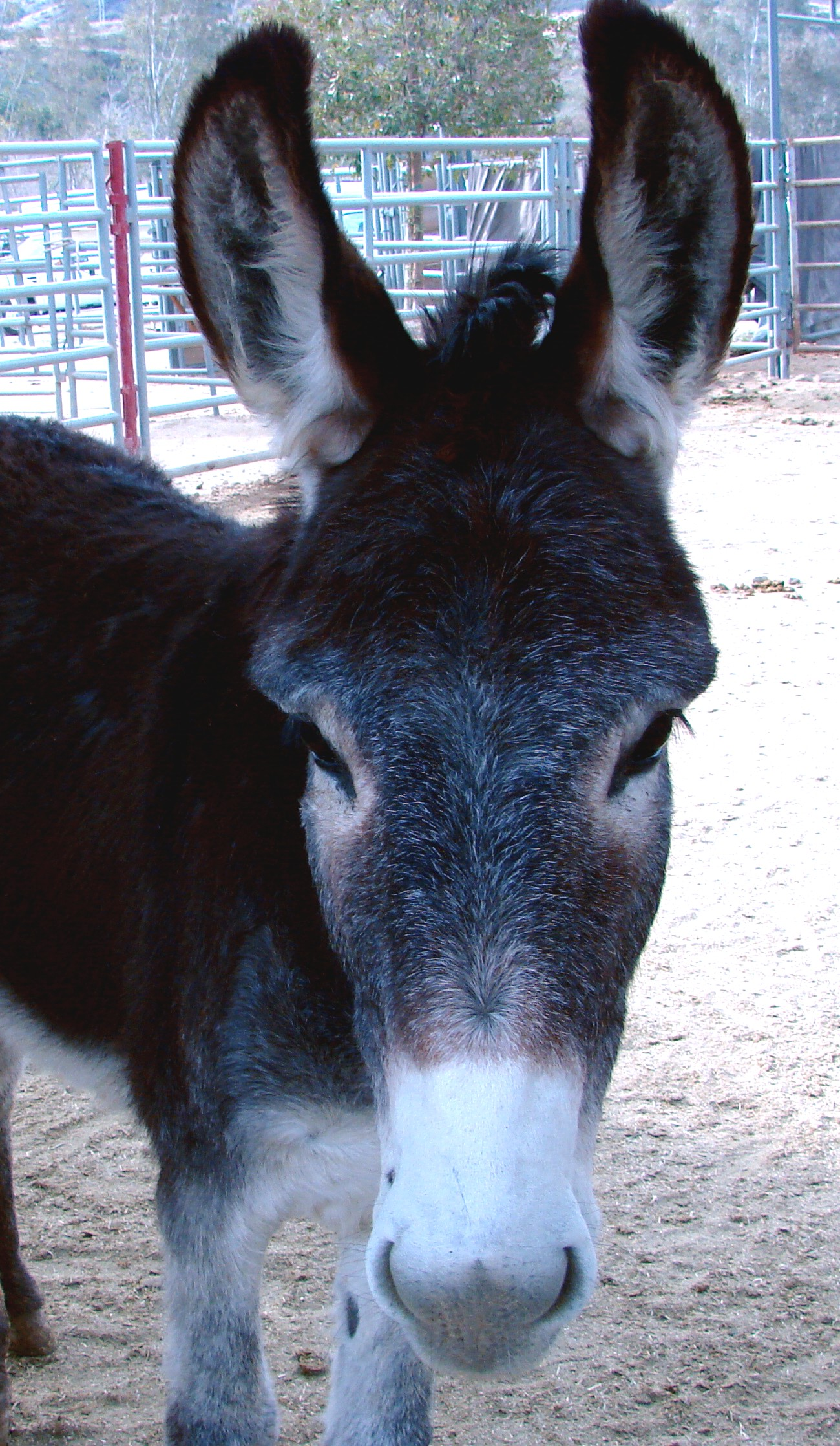 (1 in a multiple picture set) This is one of the wild burros that were waiting for adoption at Sundance Ranch in San Timoteo Canyon near Redlands, CA. They were so cute and friendly that I wished I had the space to take one home.